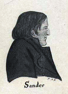 Levin Christian Sander (1756-1819)